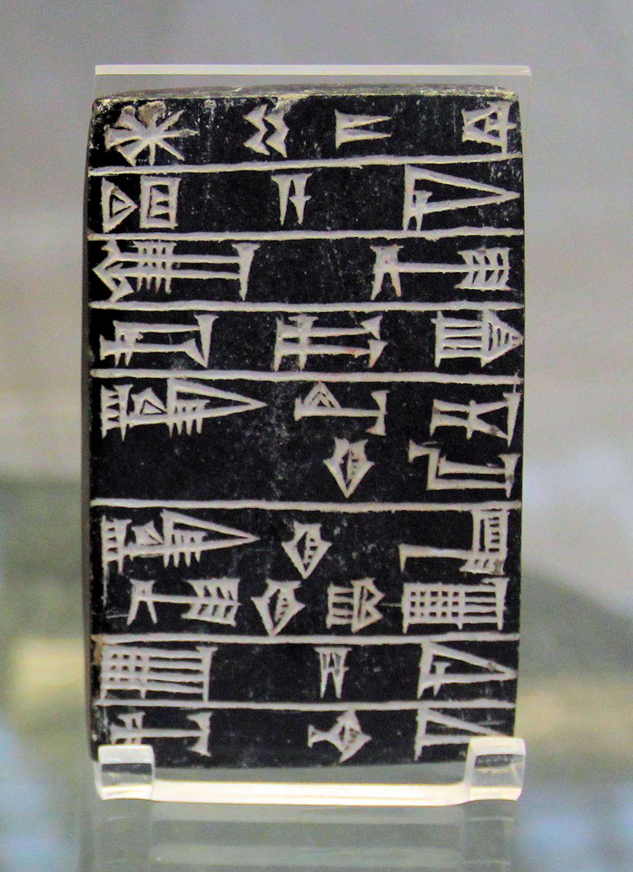 Foundation tablet Reign of Shulgi From the Temple of Dimtabba in Ur